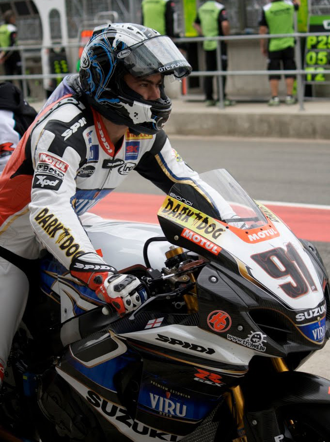 Leon Haslam 2010 SBK Silverstone